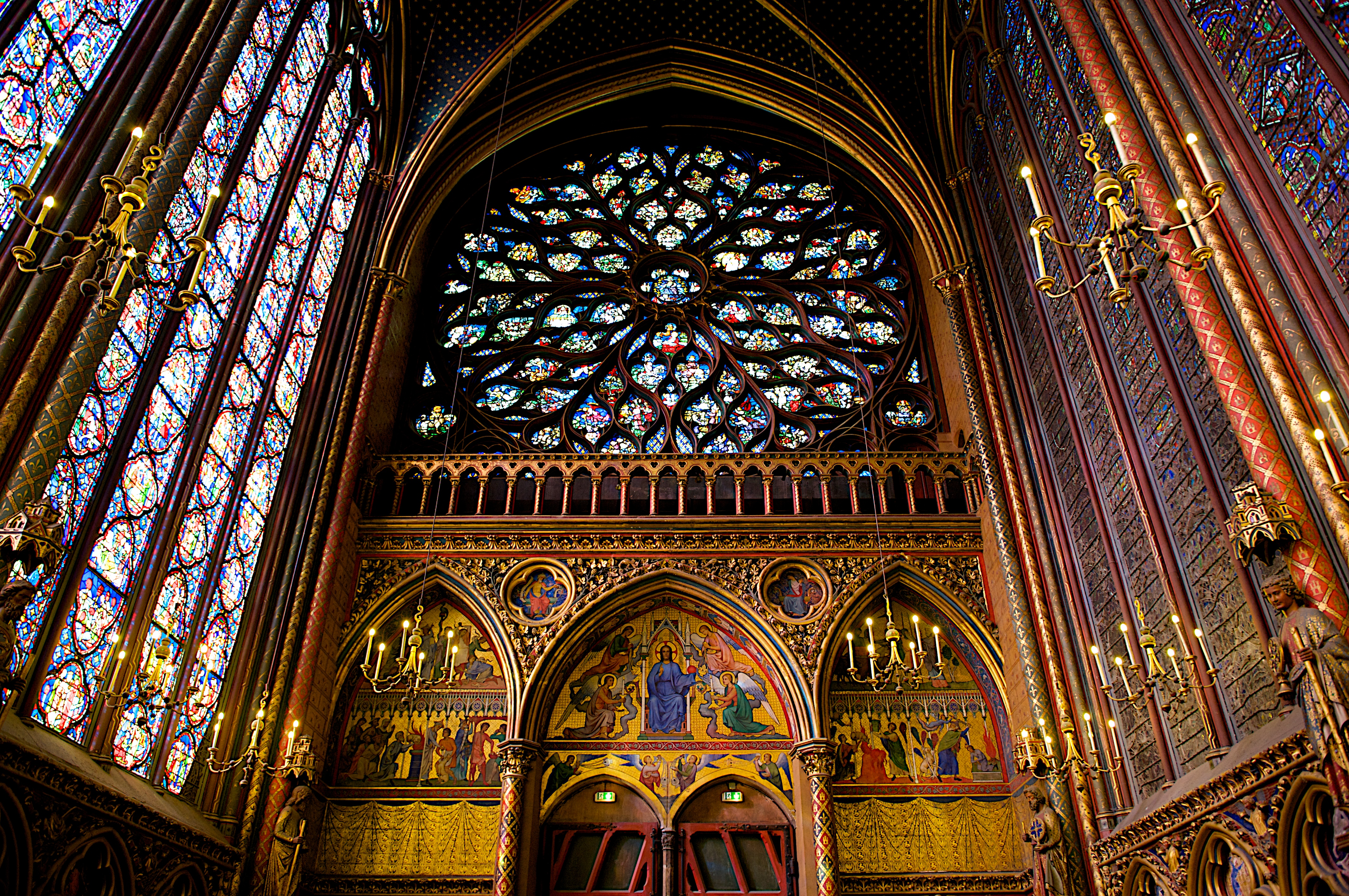 Interior of Sainte-Chapelle